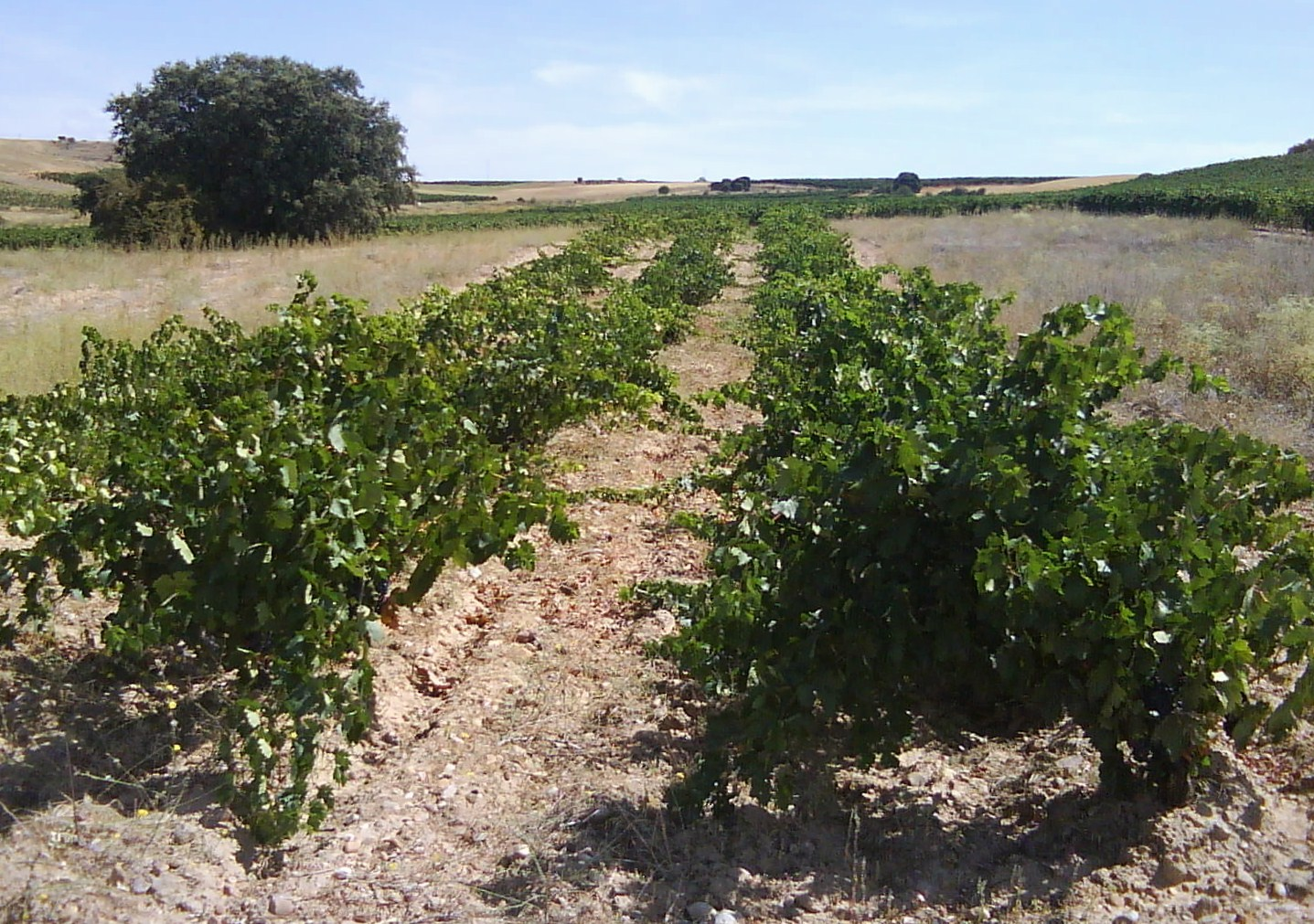 Vineyard of Fuentelisendo